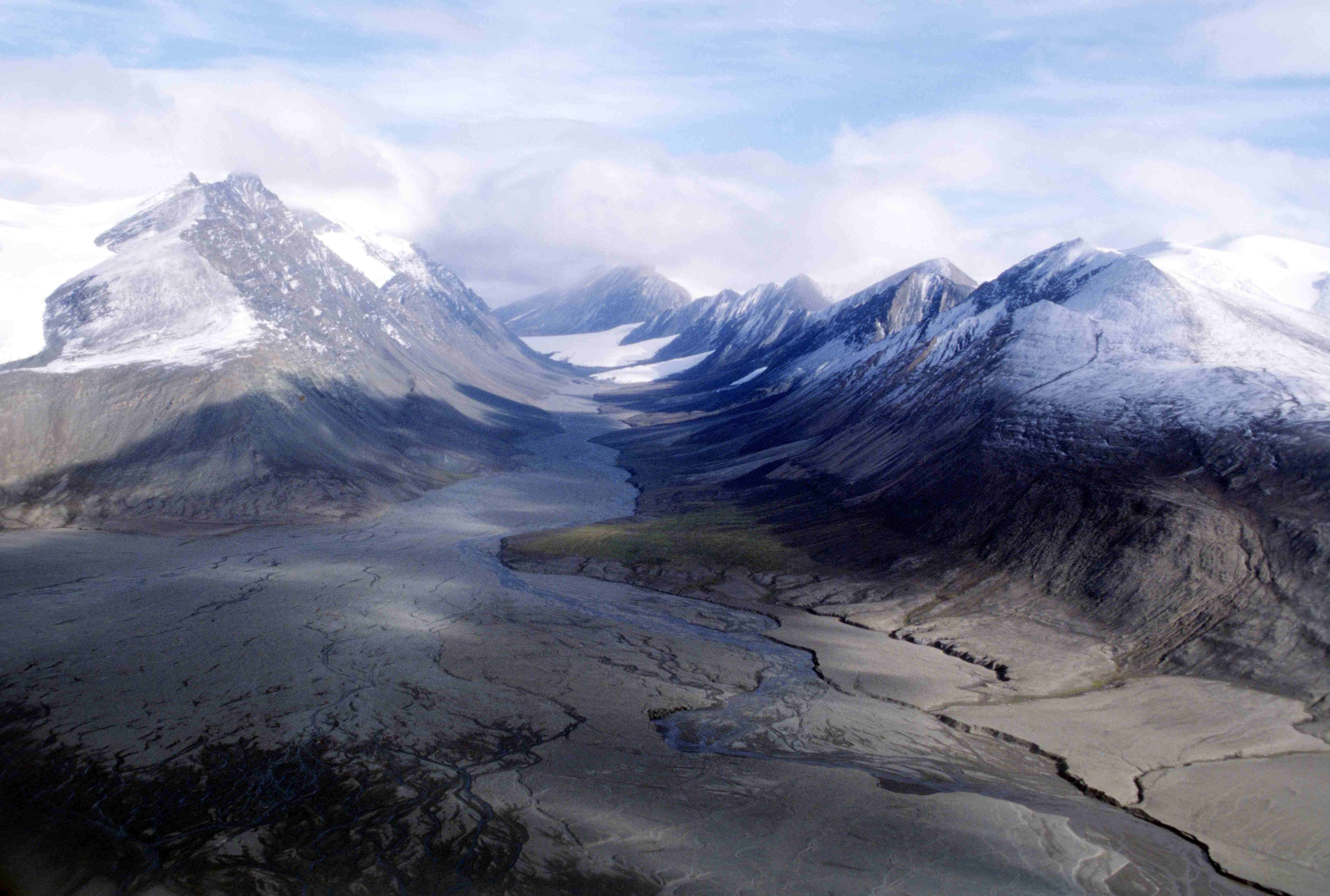 Air Force Glacier (behind) and Air Force River valley; Quttinirpaaq National Park, Nunavut, Canada